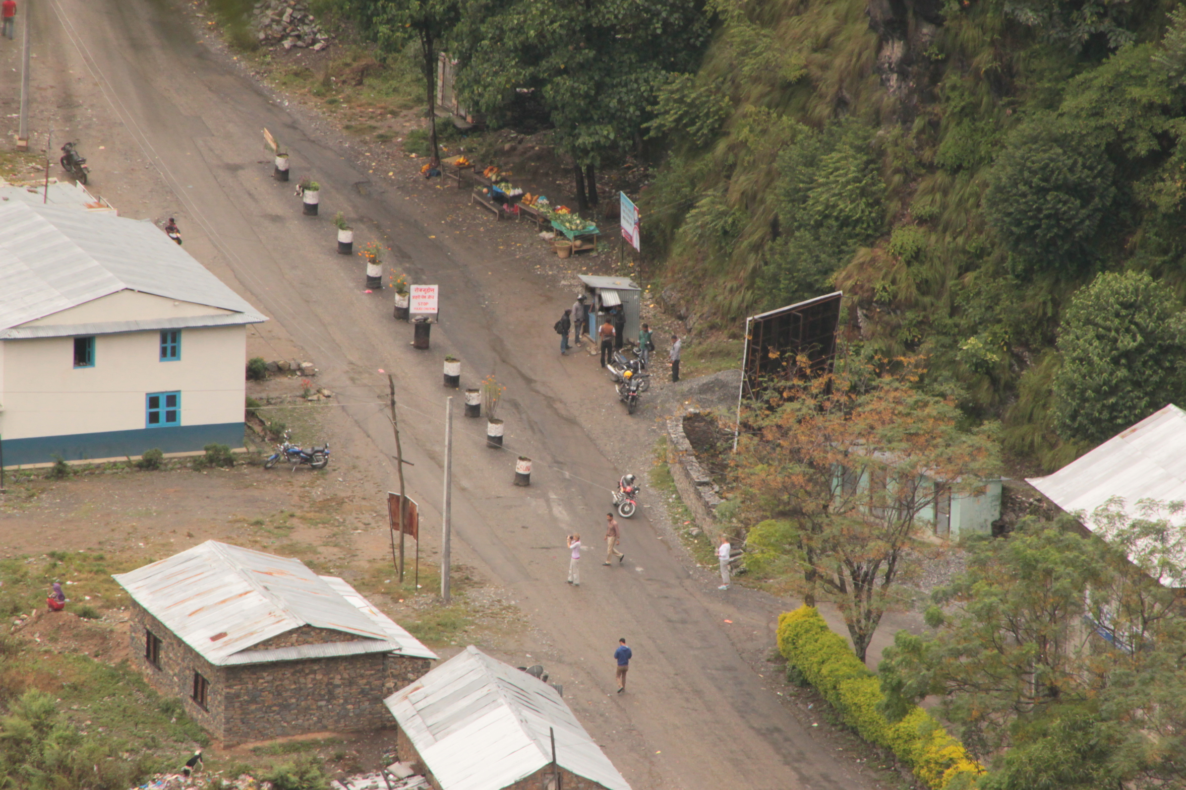 A view of Kulekhani, Makawanpur, Nepal